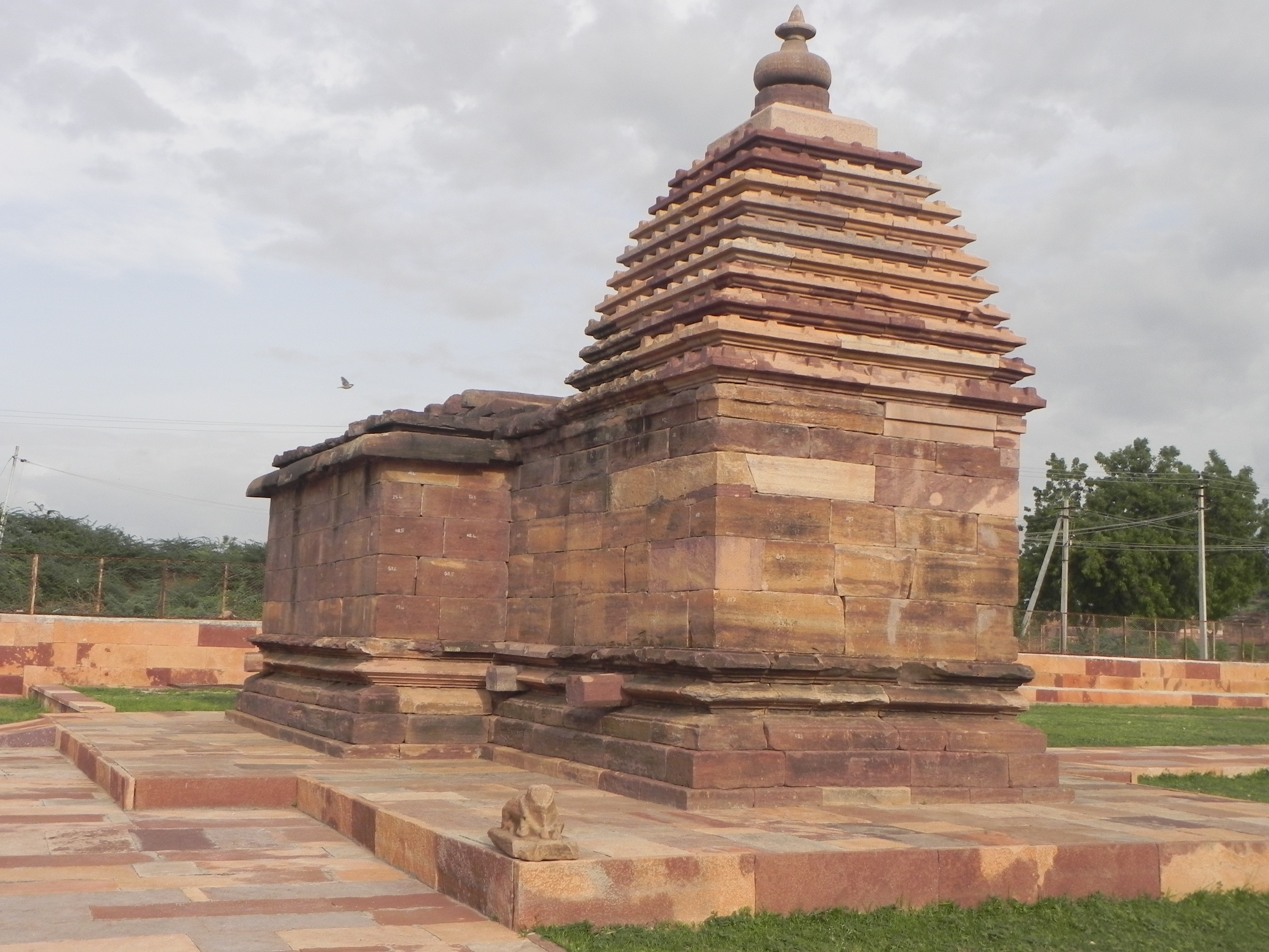 Jyothirlinga Temple, Aihole, Karnataka, India